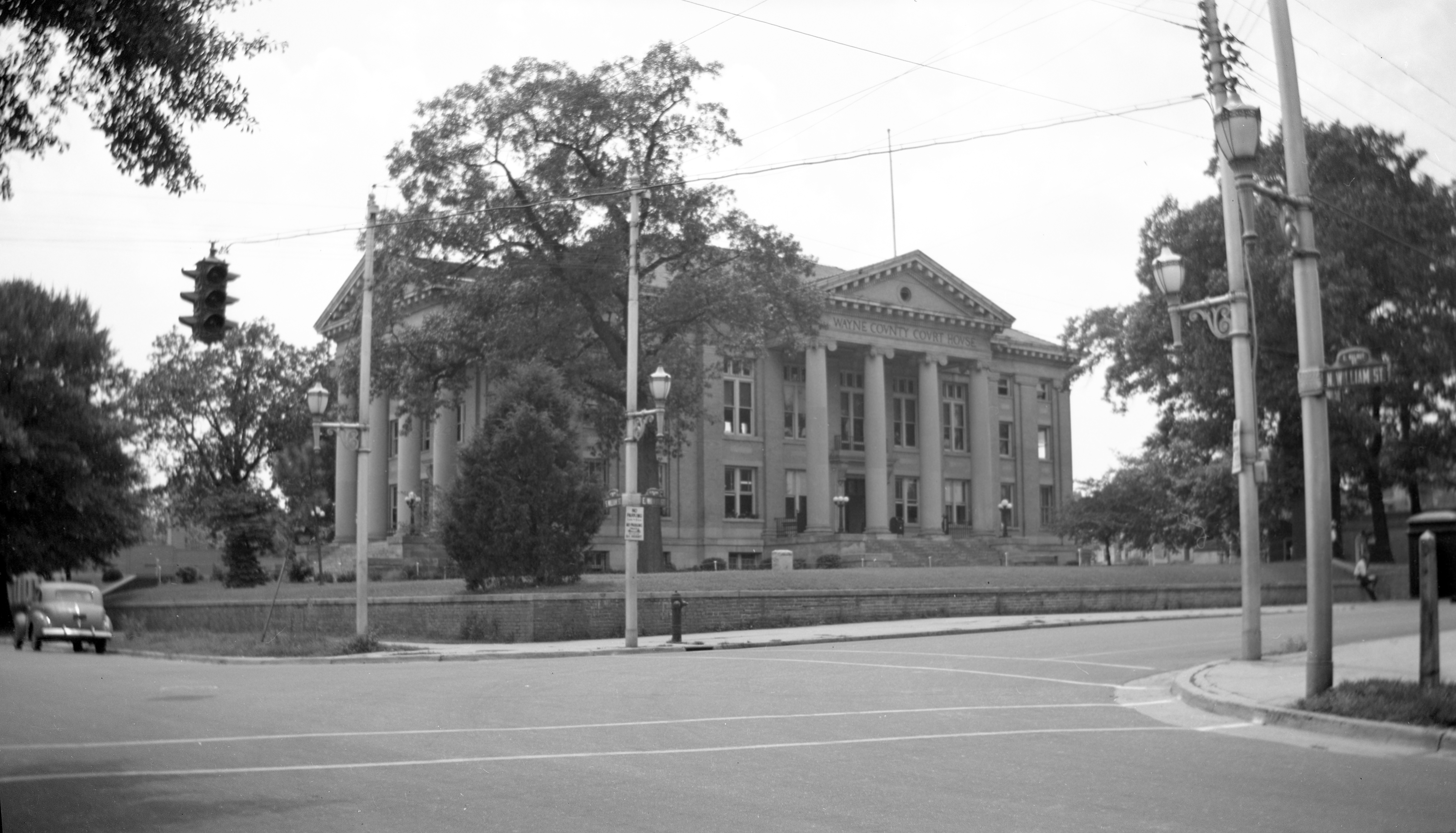 Wayne County Courthouse, Goldsboro, NC, 23 July 1948, by Clarence Griffin. From General Negative Collection, State Archives of North Carolina.